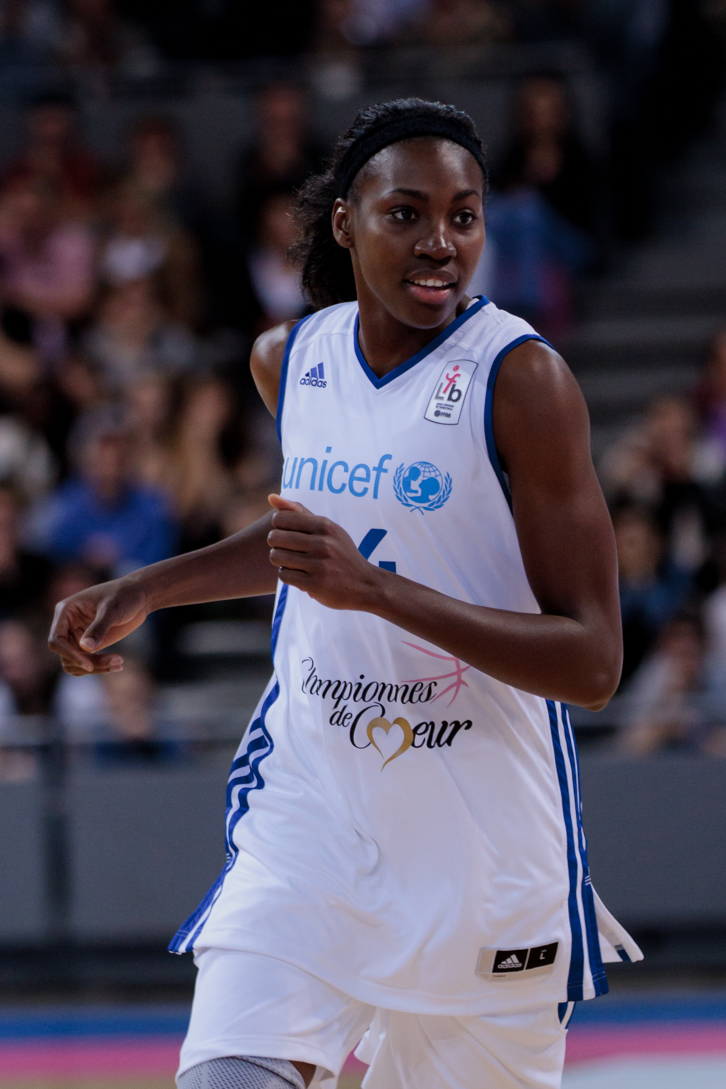 Djéné Diawara, during exhibition game Chapionnes de cœur in Toulouse.